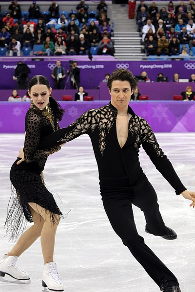 Tessa Virtue and Scott Moir at the 2018 Winter Olympic Games in PyeongChang